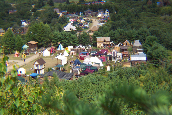 A part of the Duchy of Bicolline, a venue in Quebec covering 140 hectares. Buildings have been constructed by the players, in a medieval style, for use in the live action role-playing game Bicolline.